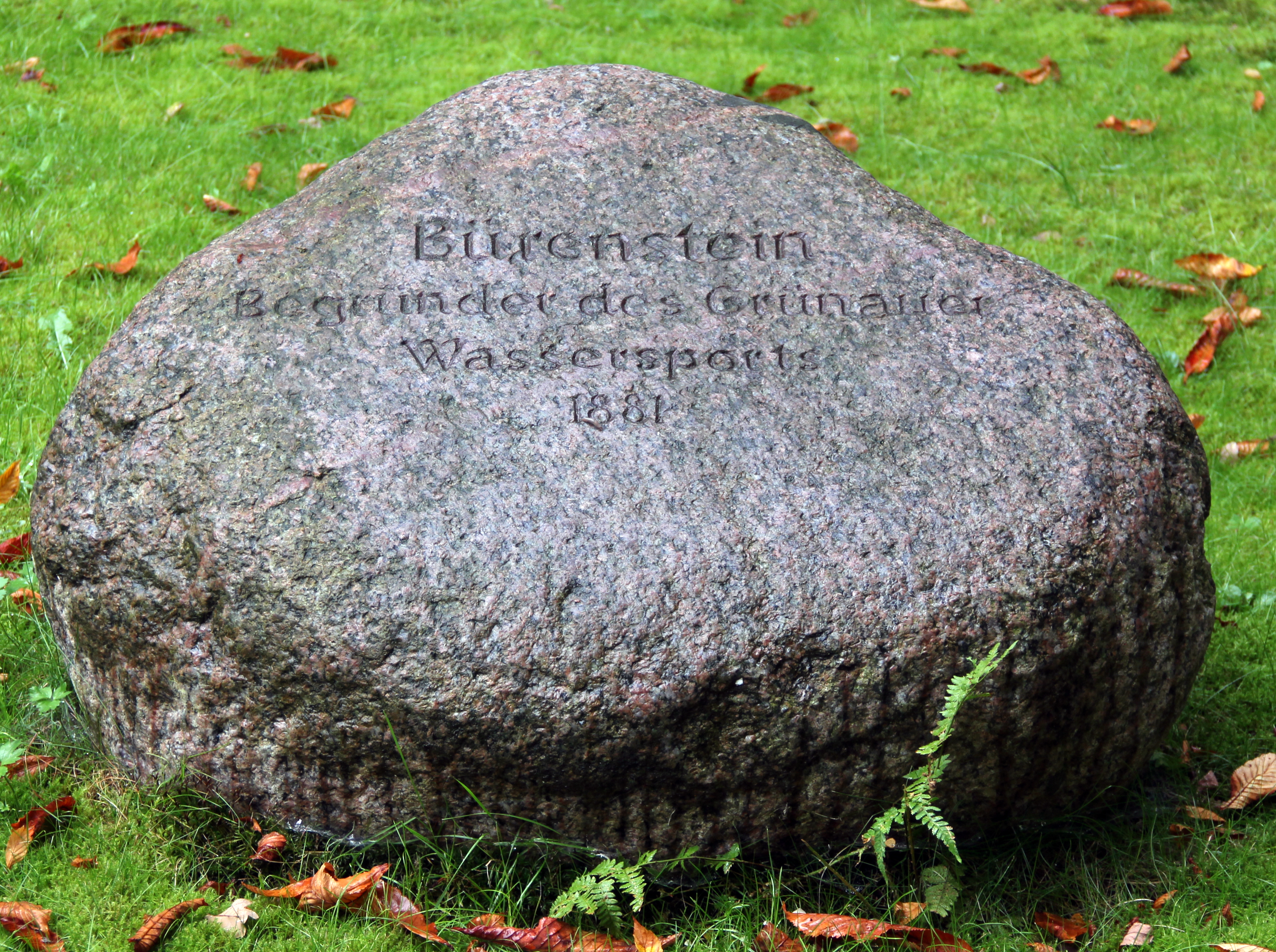 Memorial stone, Friedrich Wilhelm Georg Büxenstein, Büxensteinallee 25, Berlin-Grünau, Germany